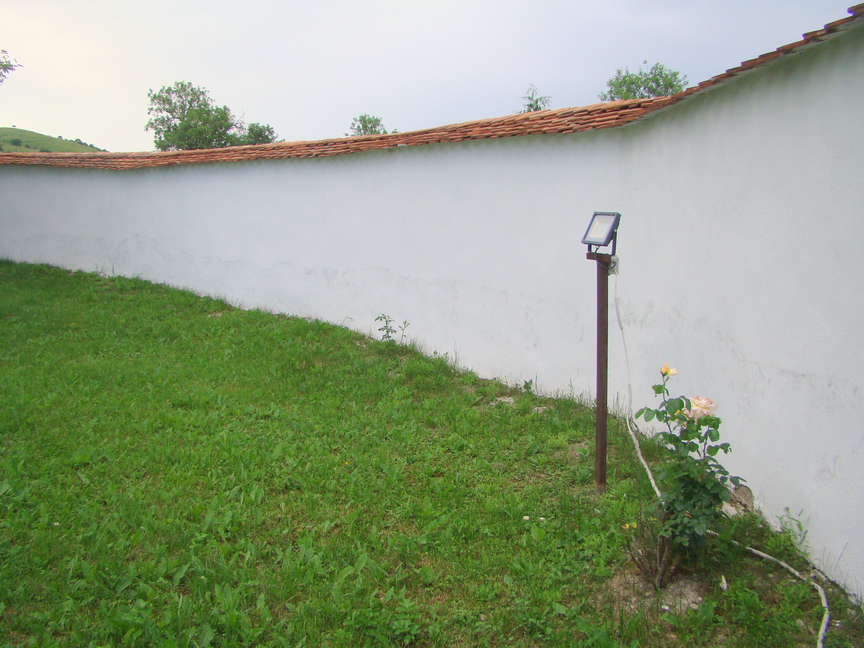 Unitarian church in Satu Nou, Harghita County, Romania